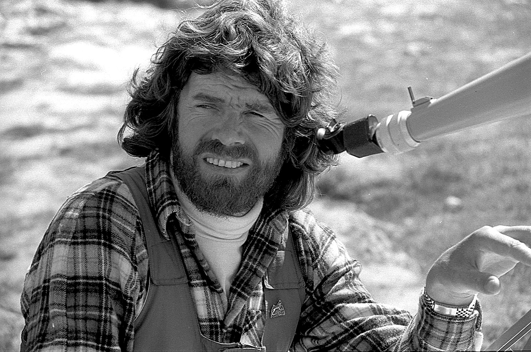 Reinhold Messner in 1985 in Pamir Mountains.